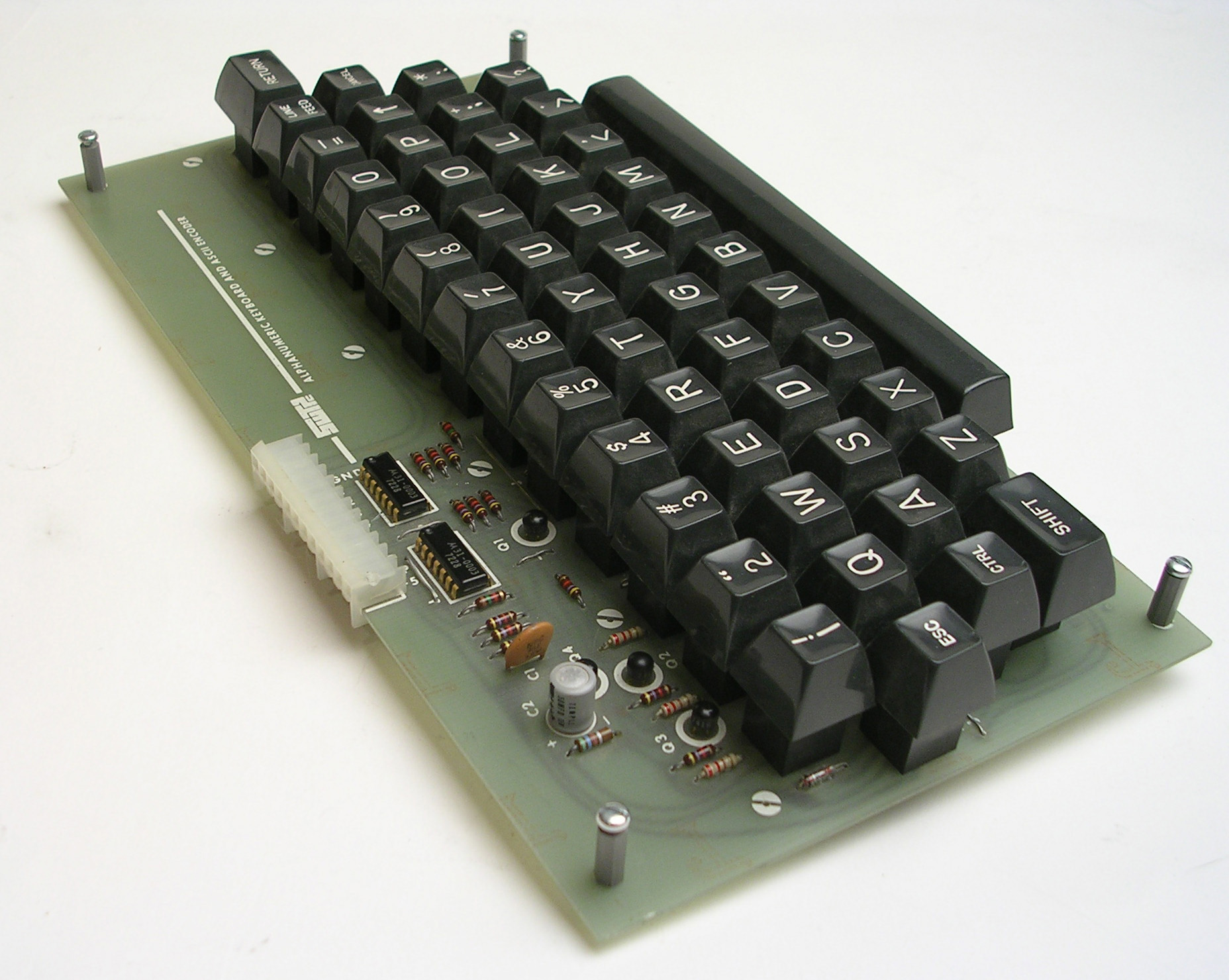 This keyboard was designed by Don Lancaster and was published in the April 1974 issue of Popular Electronics. The price was just $39 and the kit was very popular. Southwest Technical Products sold the keyboard (with revisions) for several years. Photo by Michael Holley, April 2005. Taken with a Nikon E3200 camera under tungsten lighting.